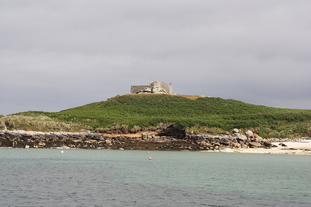 Blockhouse on Block House Point Old Grimsby